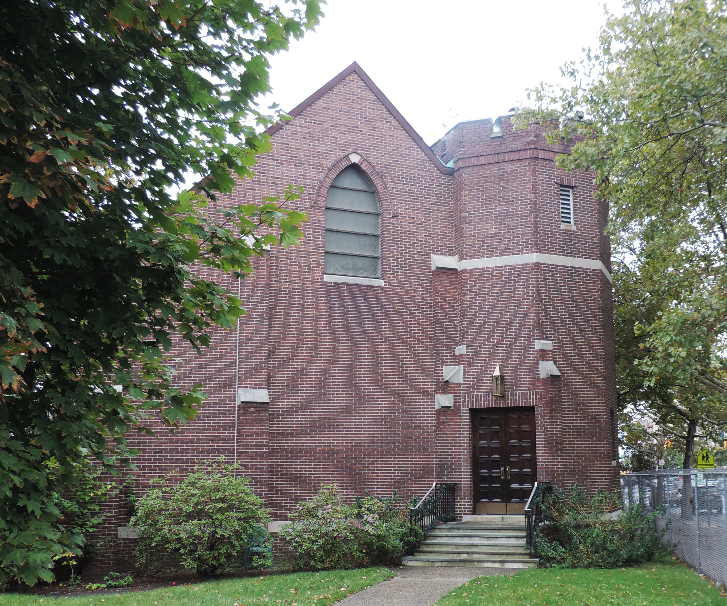 Looking southeast at St Margaret's on a cloudy day.